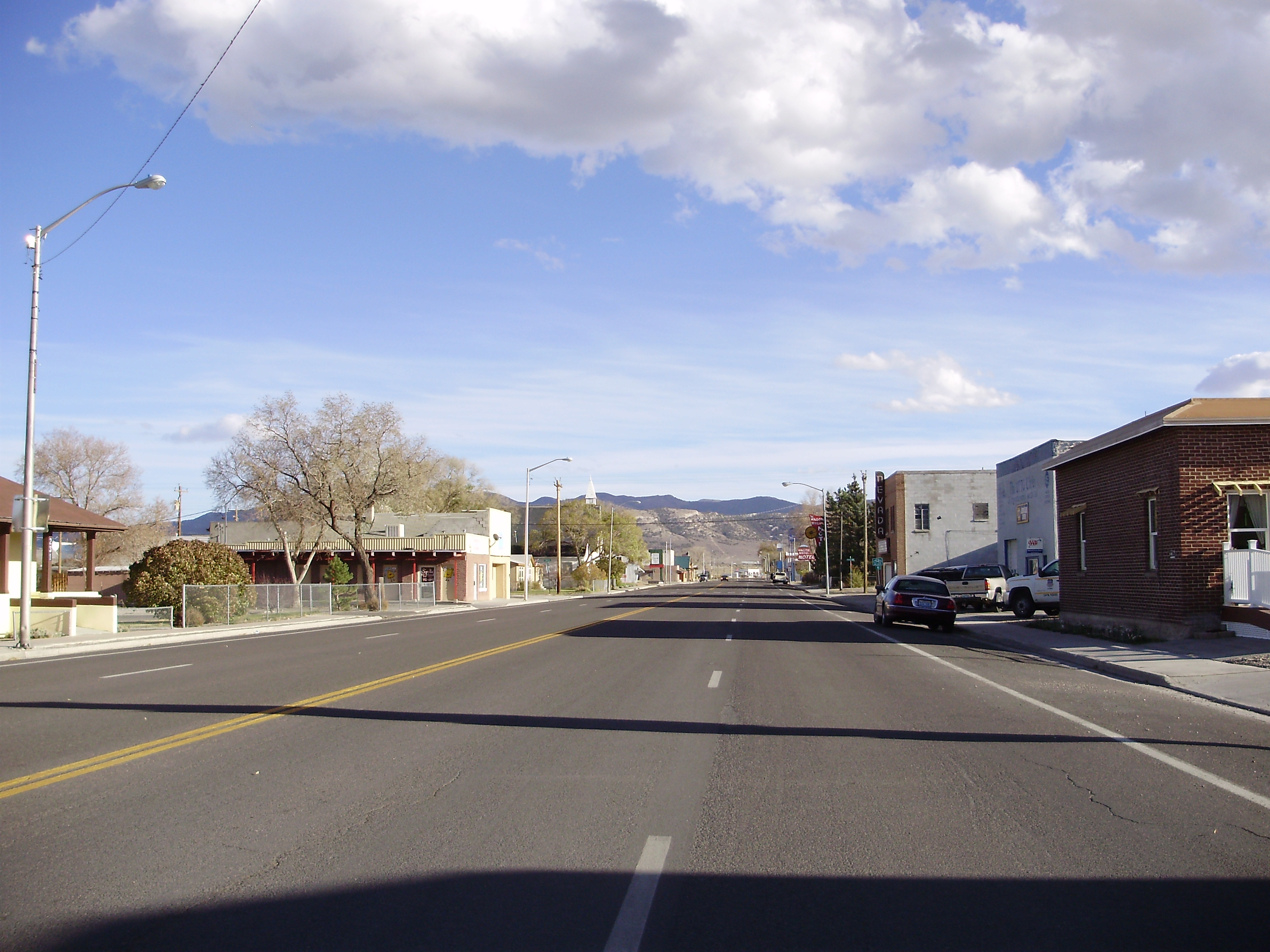 View east along Nevada State Route 223 (6th Street) near Wells Avenue in downtown Wells, Nevada